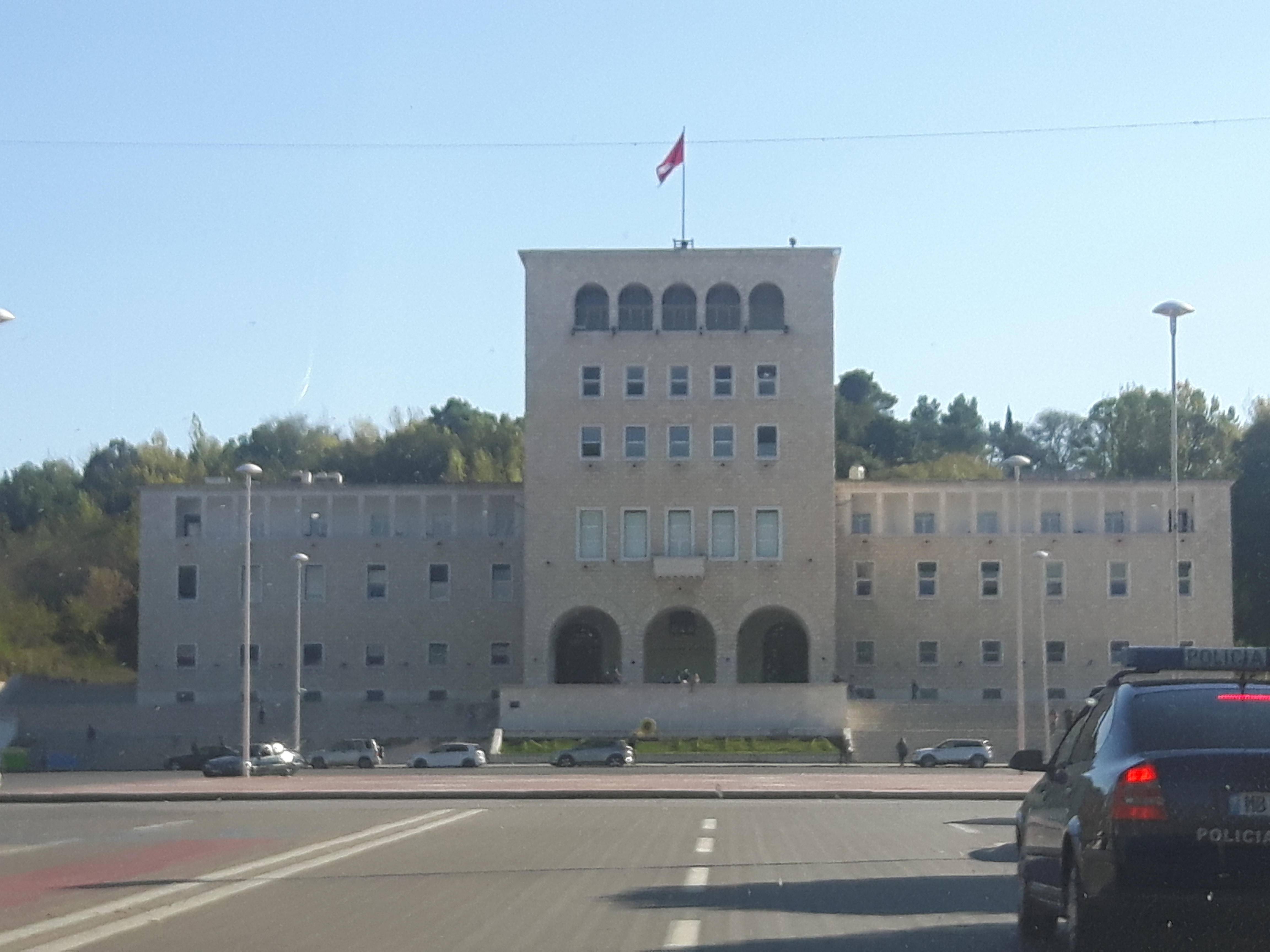 frontal view